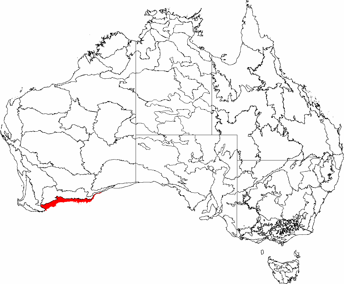 This is a map of the Interim Biogeographic Regionalisation of Australia (IBRA), with state boundaries overlaid. The Esperance Plains region is shown in red.